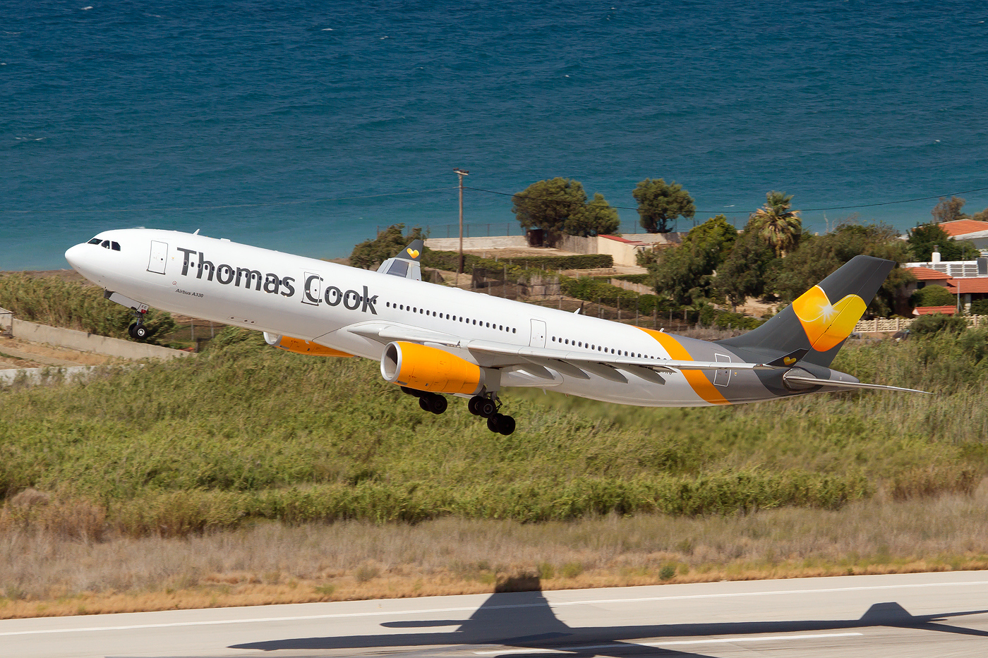 Thomas Cook Airlines Scandinavia Airbus A330-343 (OY-VKG) takes off at Rhodes